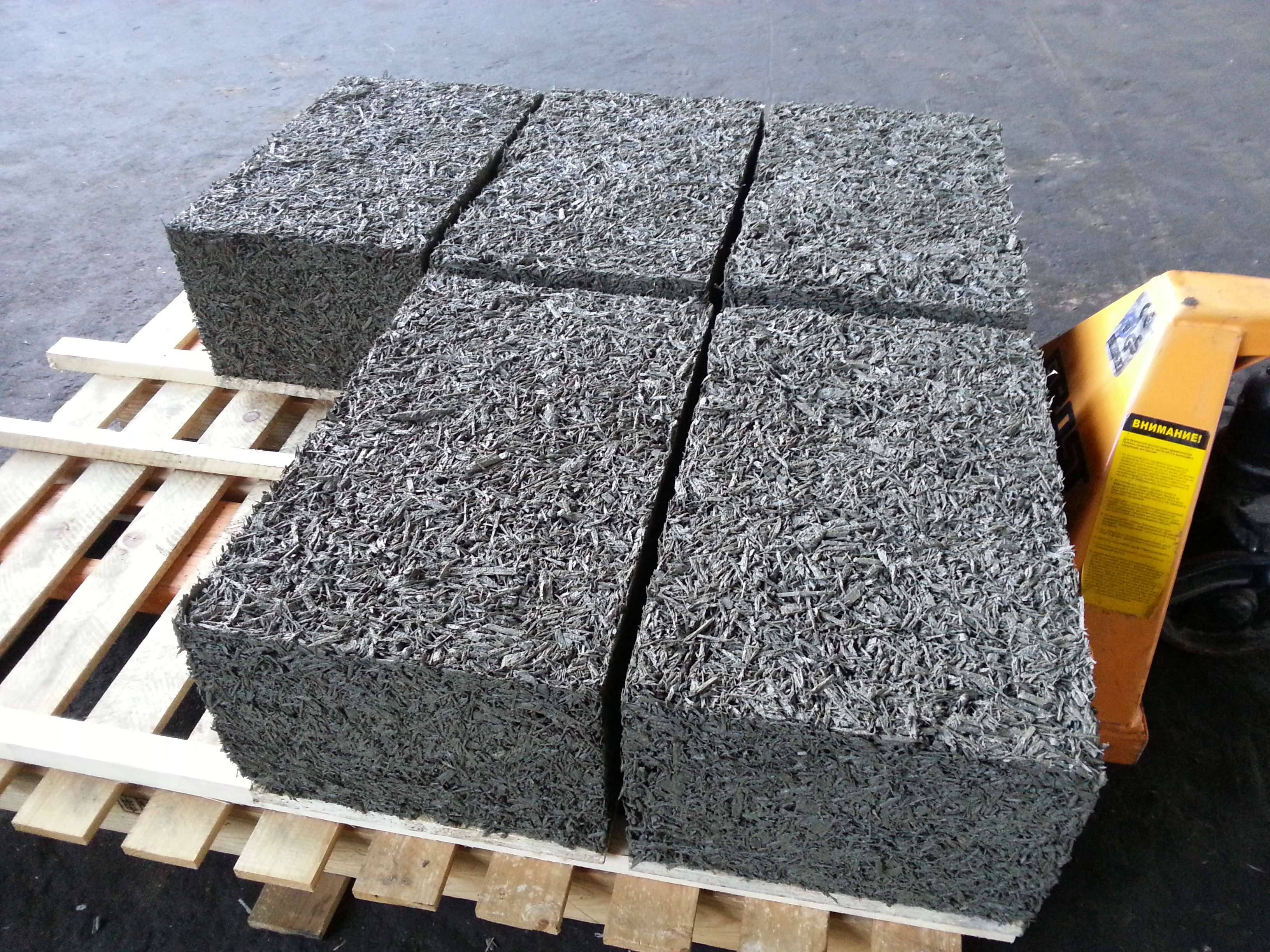 Production of wood-concrete blocks